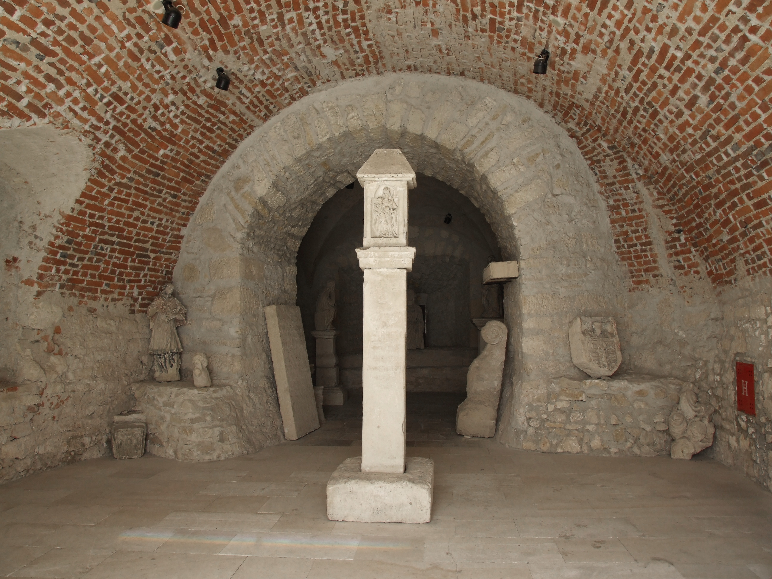 Varaždin, Old Town - lapidarium